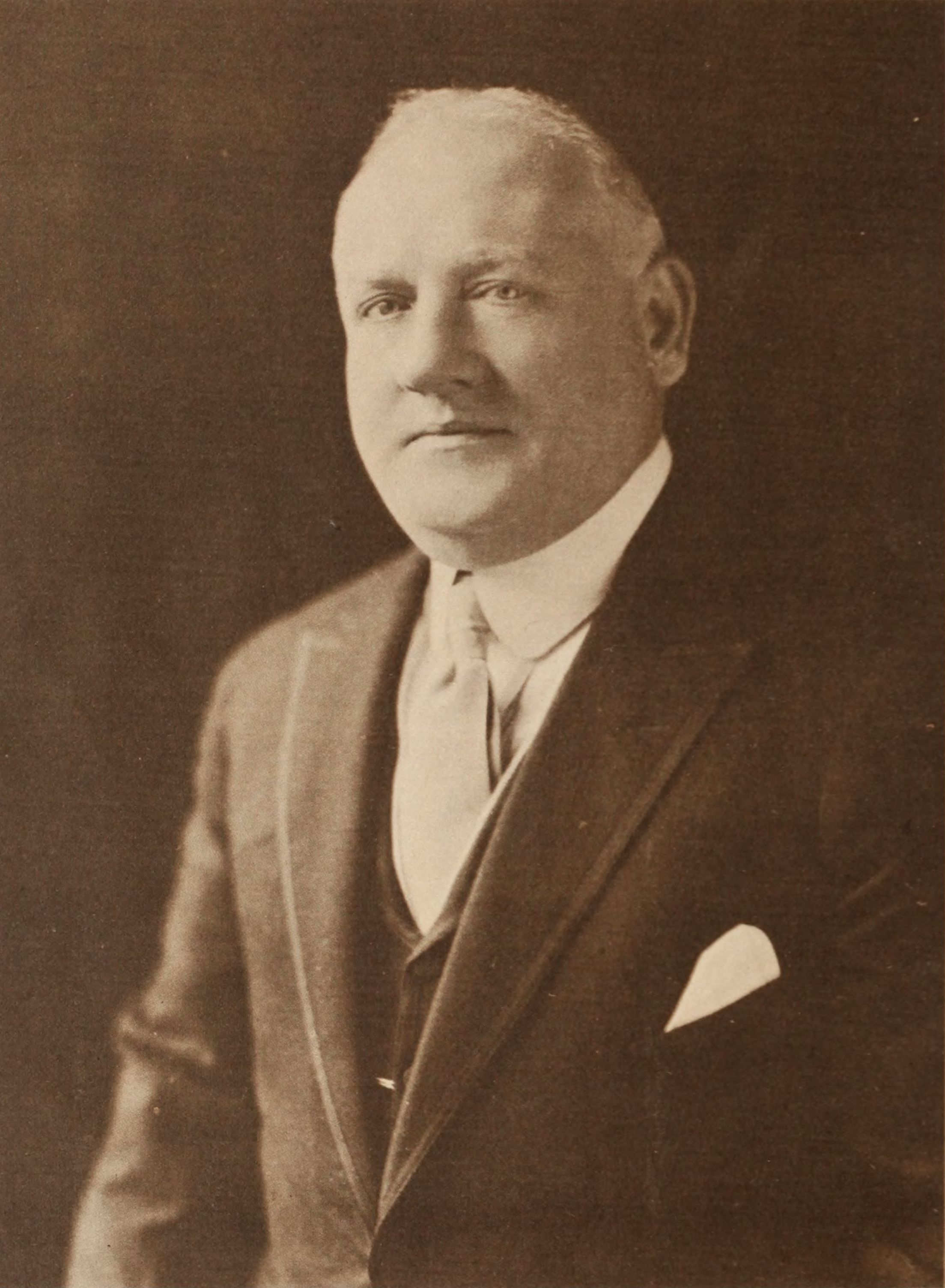 Pennsylvania State Senator John P. Harris, President, Harris Amusement Companies